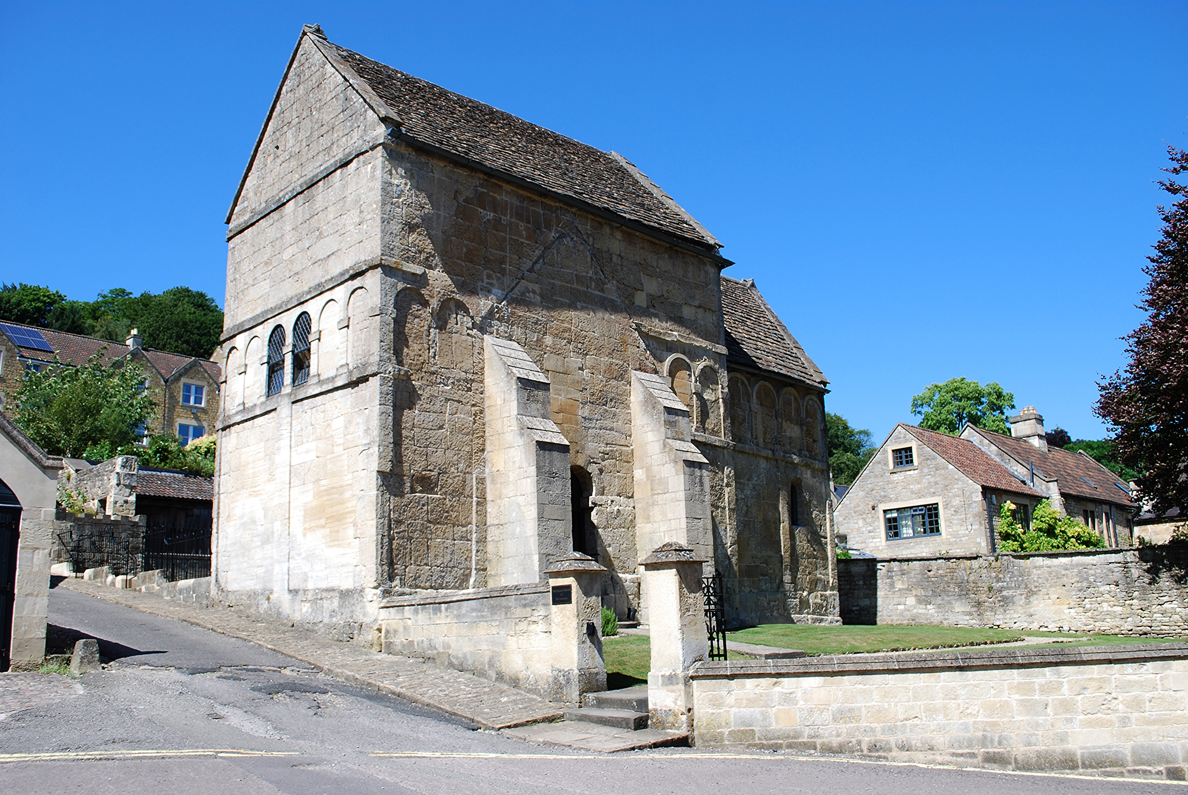 Bradford on Avon Church (St. Lawrence), Wiltshire, 19 July 2015. Saxon Church from early 11th Century - John Betjeman thought it the most notable Saxon church in England. It was probably intended for relics of King Edward the Martyr. Over the centuries the church was 'lost', being absorbed into other buildings including a school and a house. It was rediscovered in 1871 and restored over the next decade. Pictured is the south and west elevations.